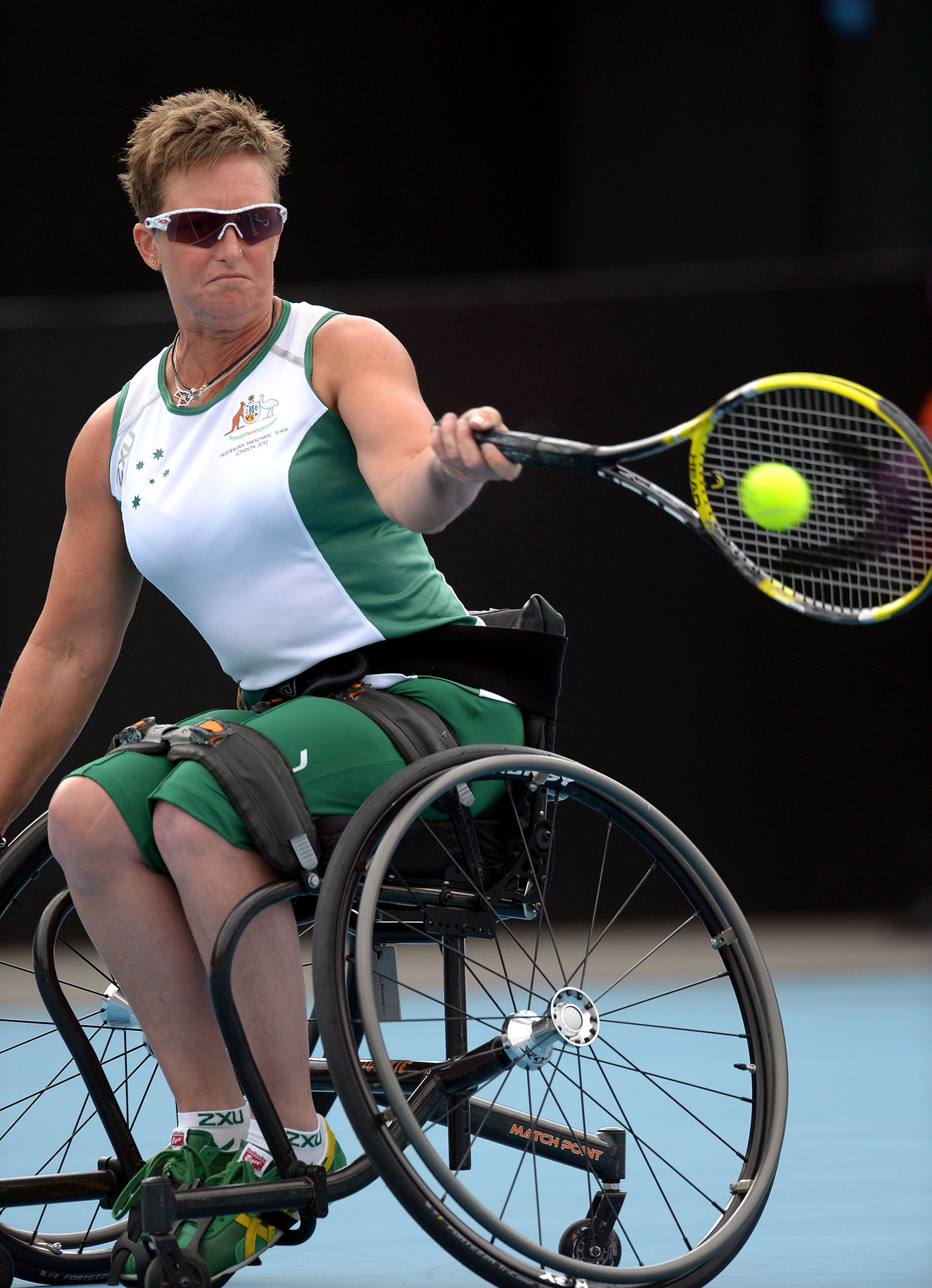 Photograph of Australian Paralympic team member Janel Manns at the 2012 Summer Paralympic Games in London